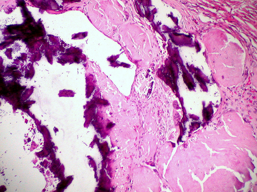 Amyloidosis, H&E Some of the amyloid has areas of dystrophic calcification.